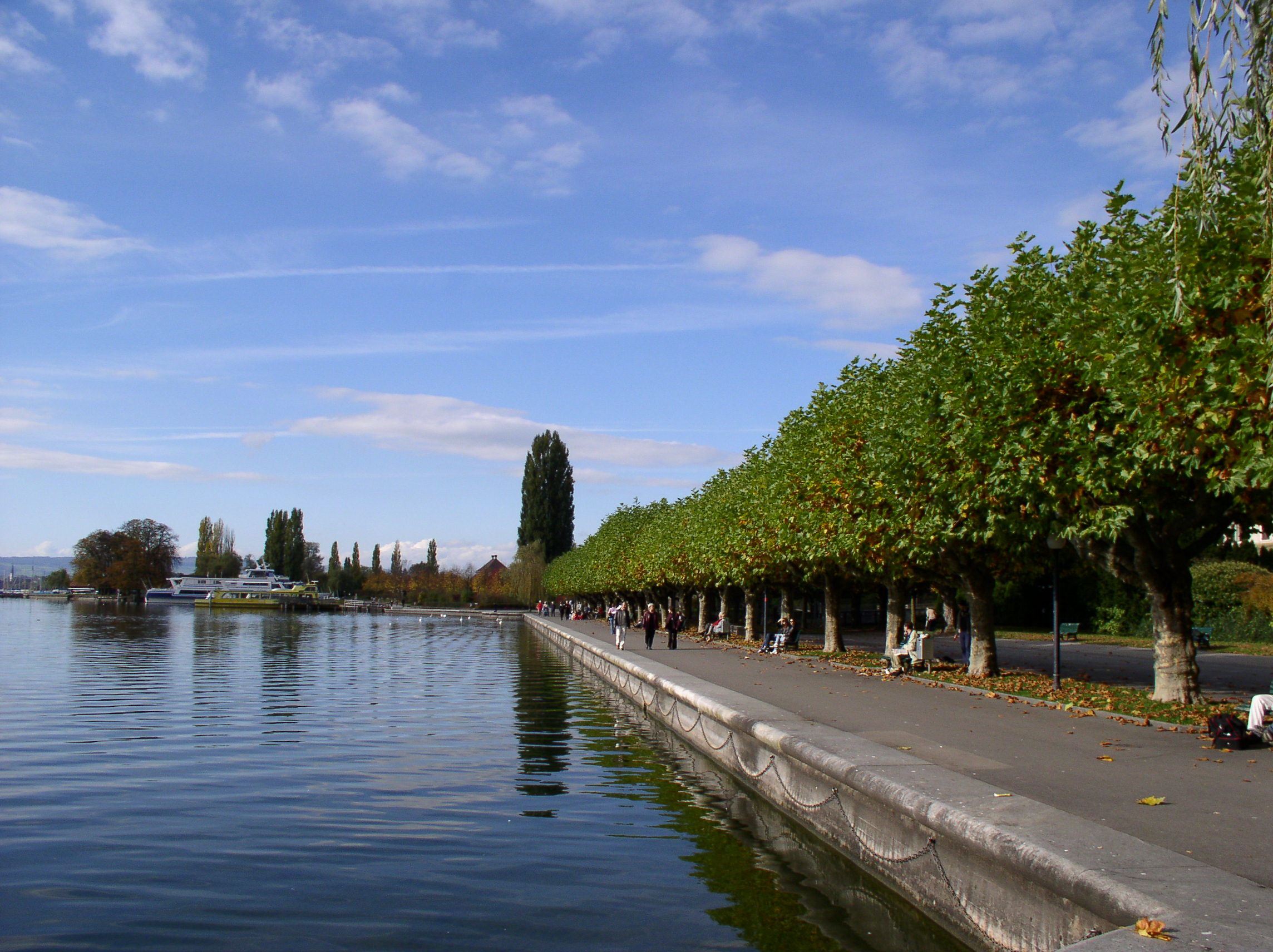 Description: Alpenquai in Zug Source: photo taken by me, October 2004 Photographer: Baikonur